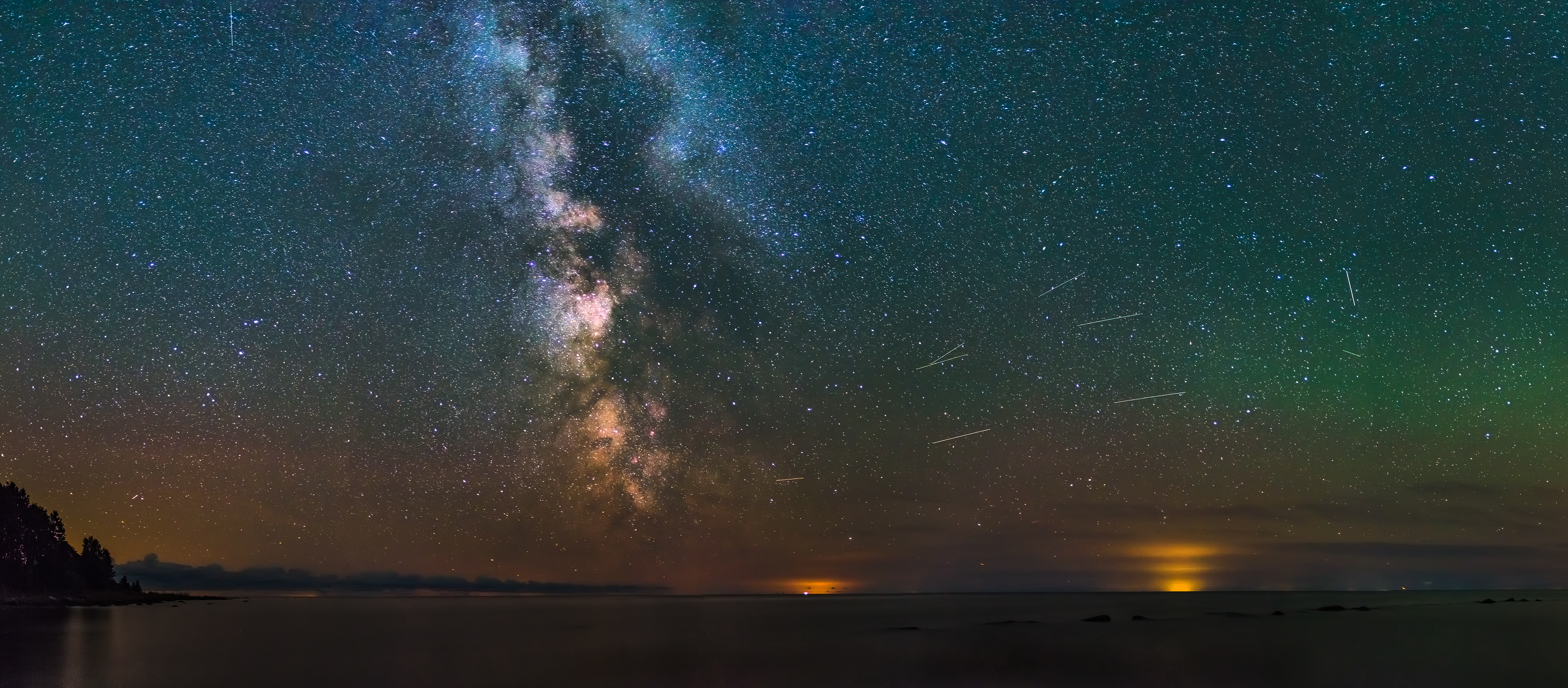 Milky Way seen from Western Estonian coast.